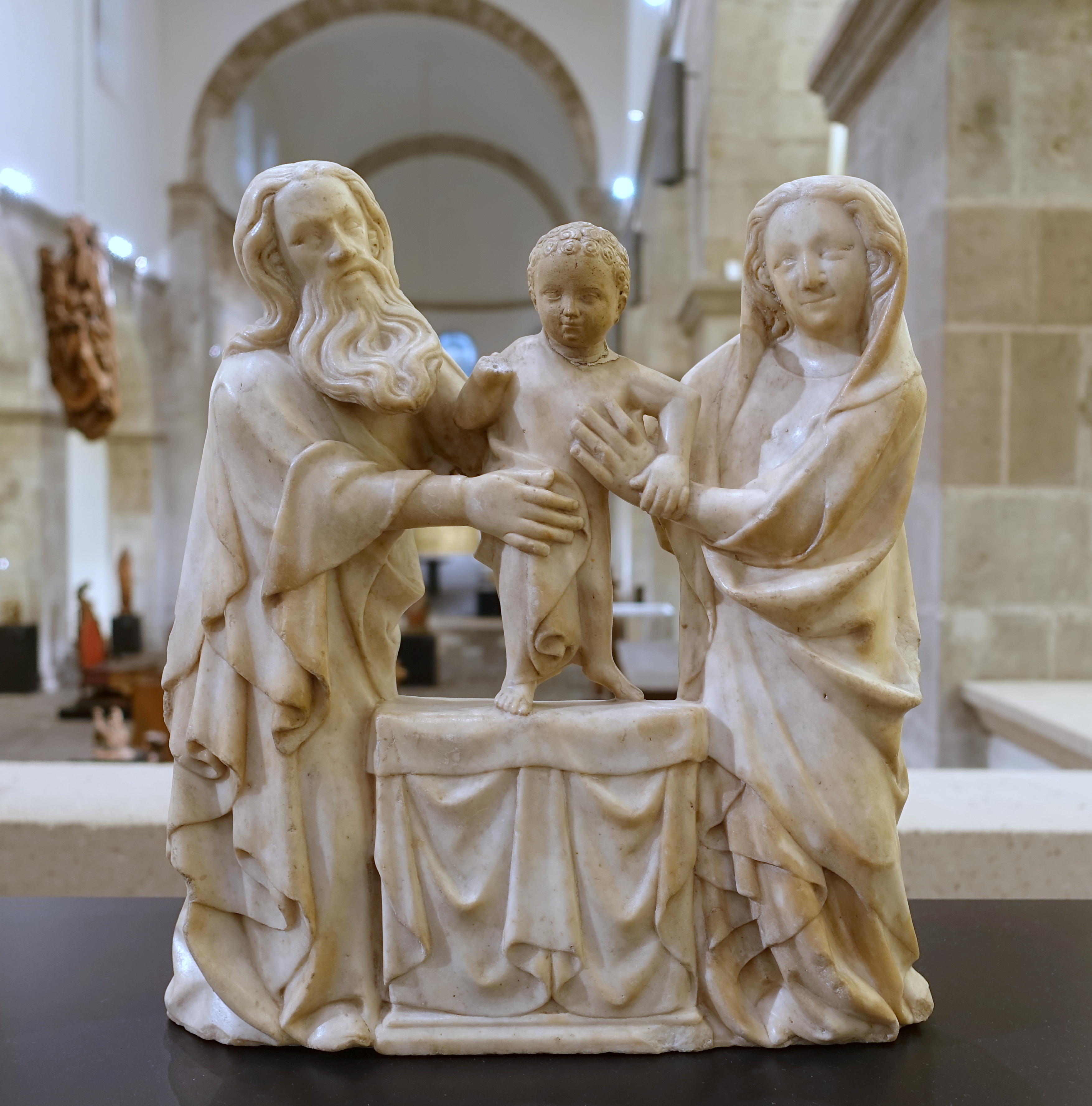 Exhibit in the Museum Schnütgen - Cologne, Germany.